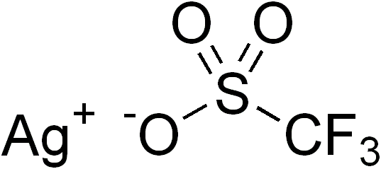 chemical structure of silver triflate (silver trifluoromethanesulfonate)